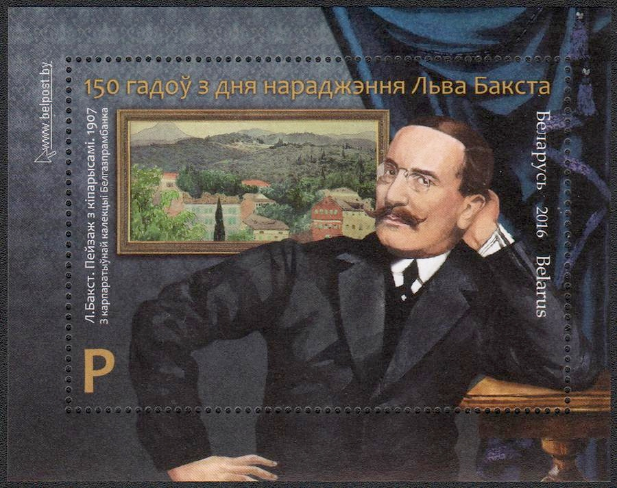 Miniature sheet of Belarus "150th Anniversary of Léon Bakst".